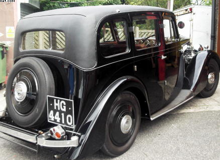 1936 Lanchester 12-6(?) 1936 Lanchester (DVLA) first registered 9 May 1936, 1479 cc